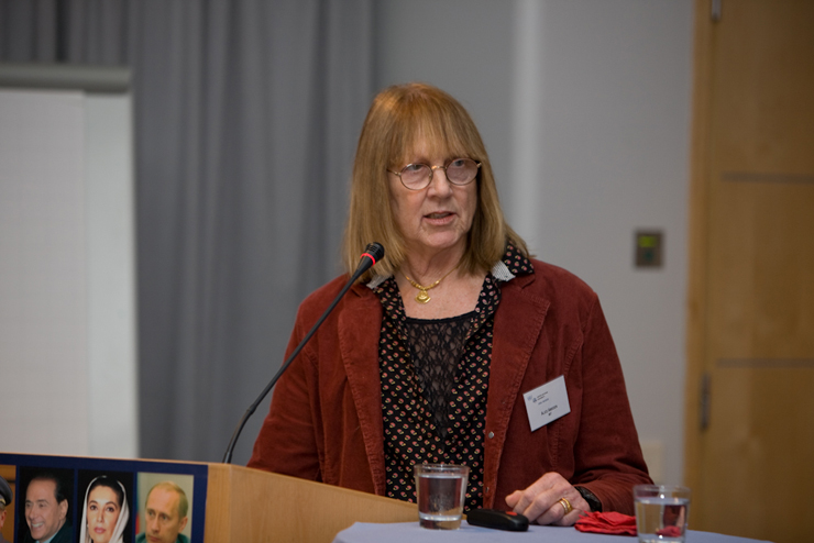 Alice Amsden, Professor, Massachusetts Institute of Technology MIT Presentation: National and international elites